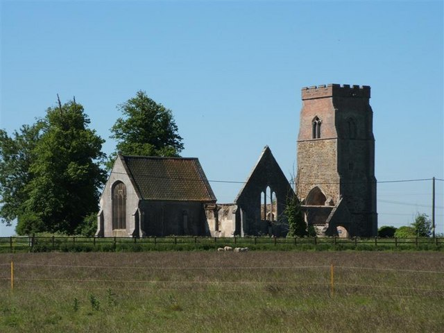 The ruin of St Mary's parish church, Islington, Norfolk, seen from the northeast